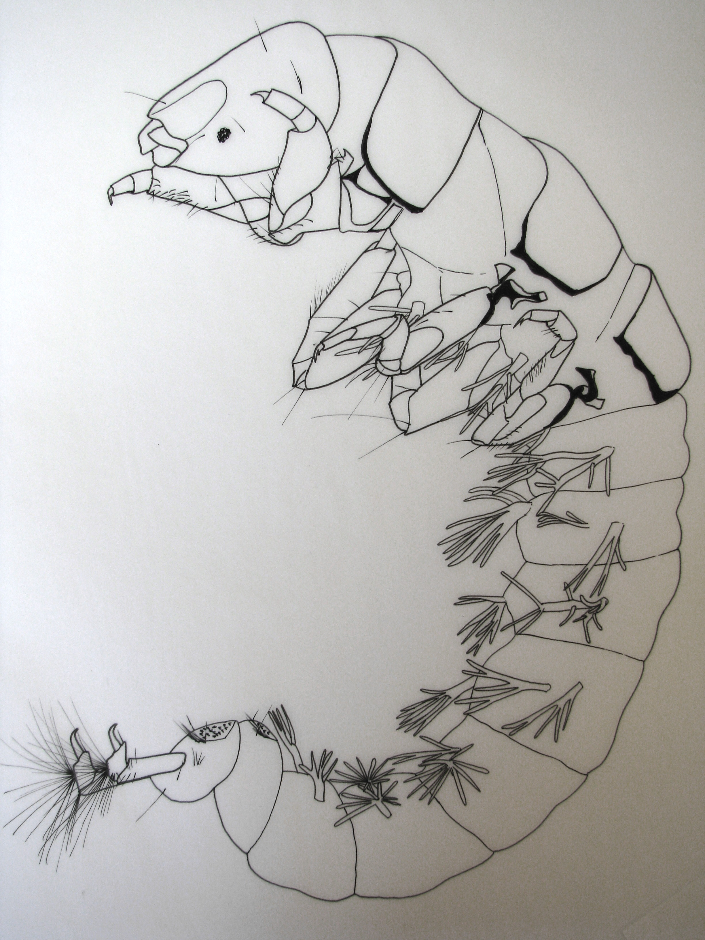 Ventrolateral view of a Cheumatopsyche spp. larva (Trichoptera: Hydropsychidae)